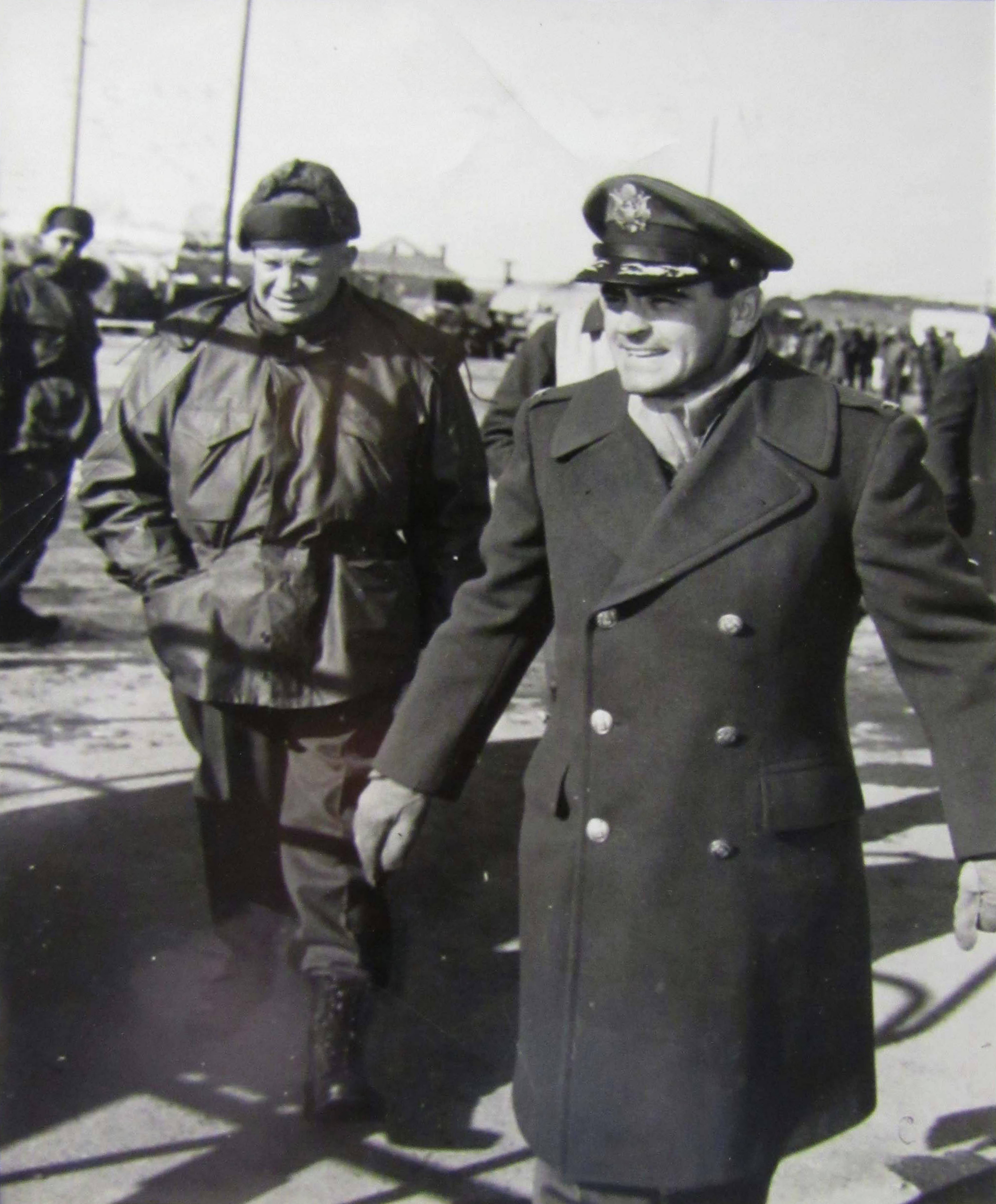 A photograph of President-elect Dwight D. Eisenhower taking an inspection tour of Kimpo Air Base, Korea with 4th Fighter Interceptor Wing commander Colonel James K. Johnson. The caption under the picture reads, "Col James K. Johnson, 4FIW Commander, with President-elect Eisenhower during inspection tour at Kimpo AB, Korea. (USAF Photo - 6 Dec 52)"